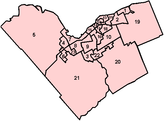 Ottawa City wards - 2006